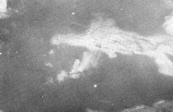 Japanese cargo ship Koei Maru is straddled by bombs dropped from aircraft the USS Yorktown in Tulagi harbor on May 4, 1942. The ship escaped without serious damage.